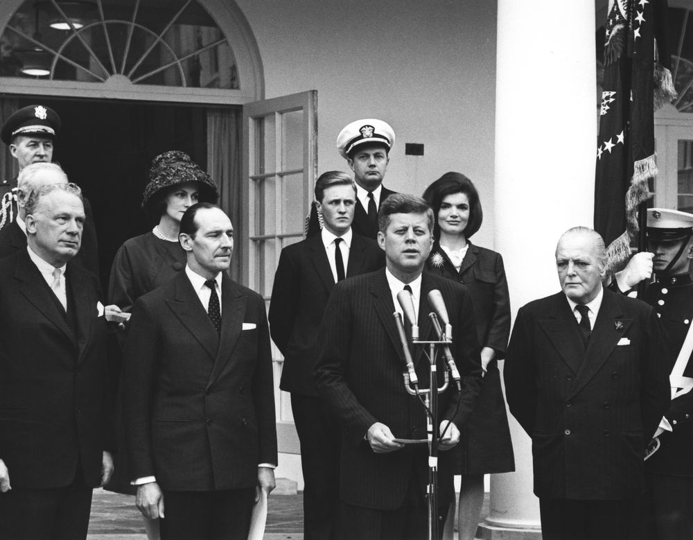 President John F. Kennedy delivers remarks at a proclamation ceremony declaring former British Prime Minister, Sir Winston Churchill, an honorary citizen of the United States. Front row (L-R): Under Secretary of State, George Ball; Ambassador of Great Britain, Sir David Ormsby-Gore; President Kennedy; Randolph Churchill, son of Sir Winston Churchill. Back rows (L-R): Military Aide to the President, General Chester V. Clifton (very back); Sylvia Thomas Ormsby-Gore, wife of the British Ambassador; Winston Churchill, Jr., son of Randolph Churchill; Naval Aide to the President, Tazewell Shepard (in back); First Lady Jacqueline Kennedy. Rose Garden, White House, Washington, D.C.